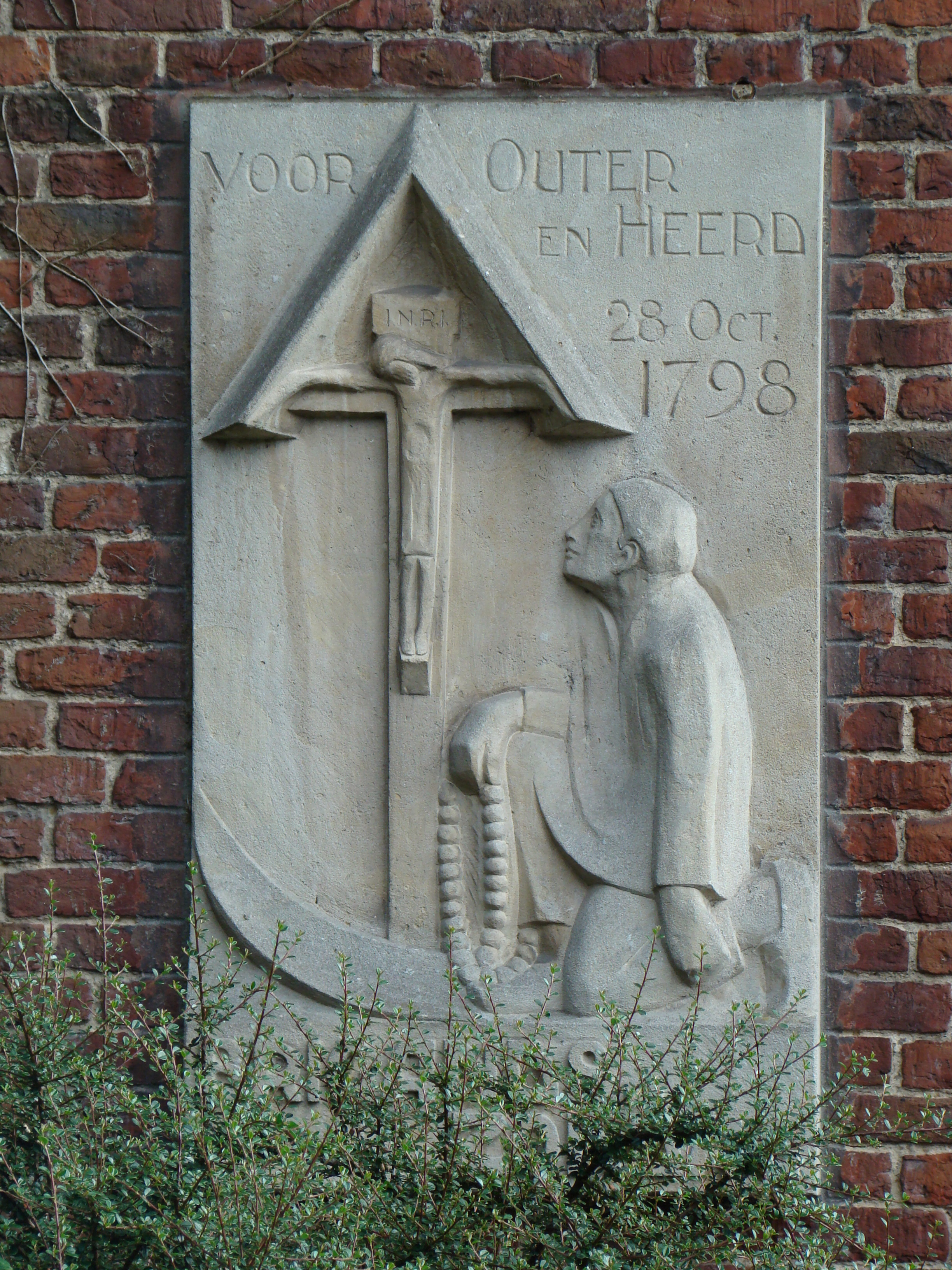 Ingelmunster (West Flanders, Belgium)